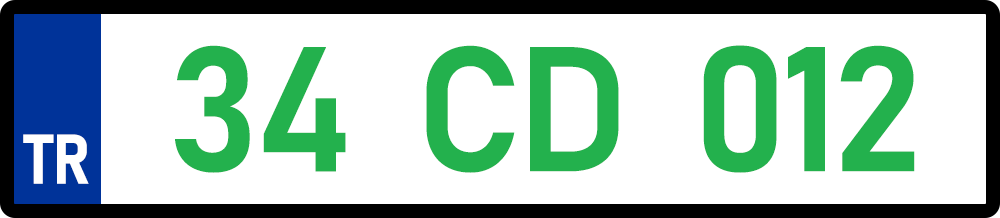 Diplomatic plate of Turkey in Istanbul- It has no seal of the issuing authority; therefore it possibly is not the picture of a real one but simply an image.